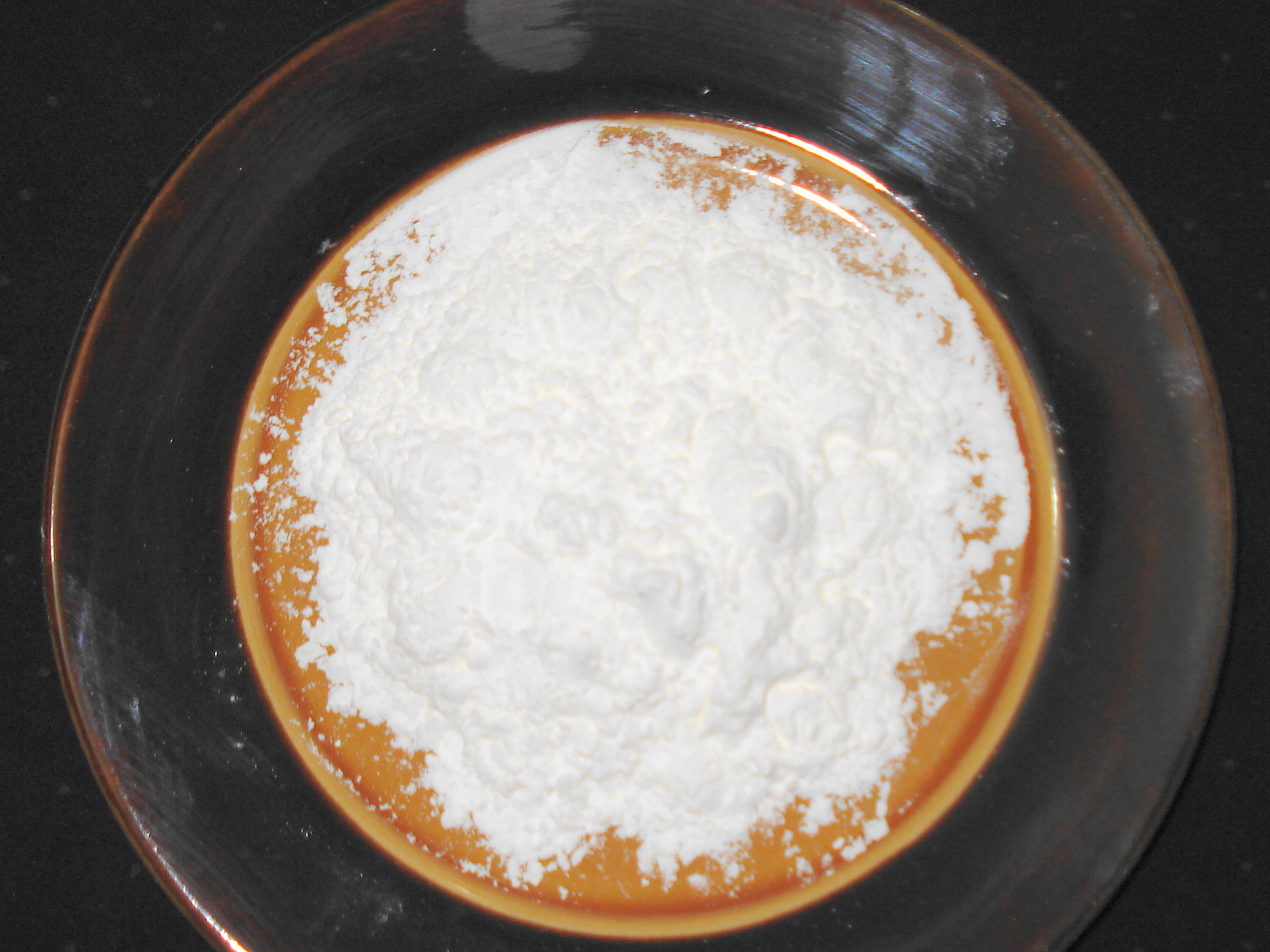 Starch, Nishashta